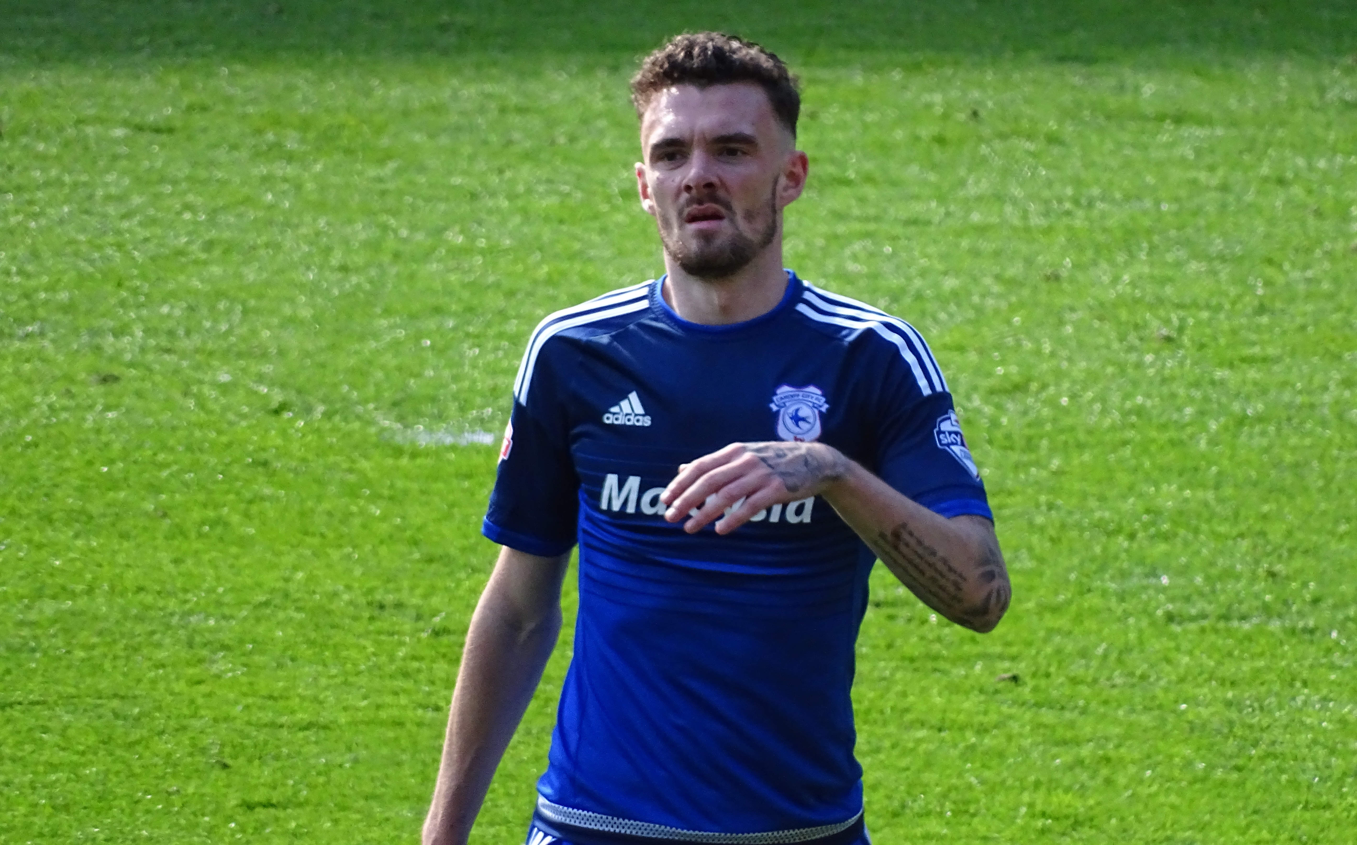 Scott Malone playing for Cardiff City in 2015